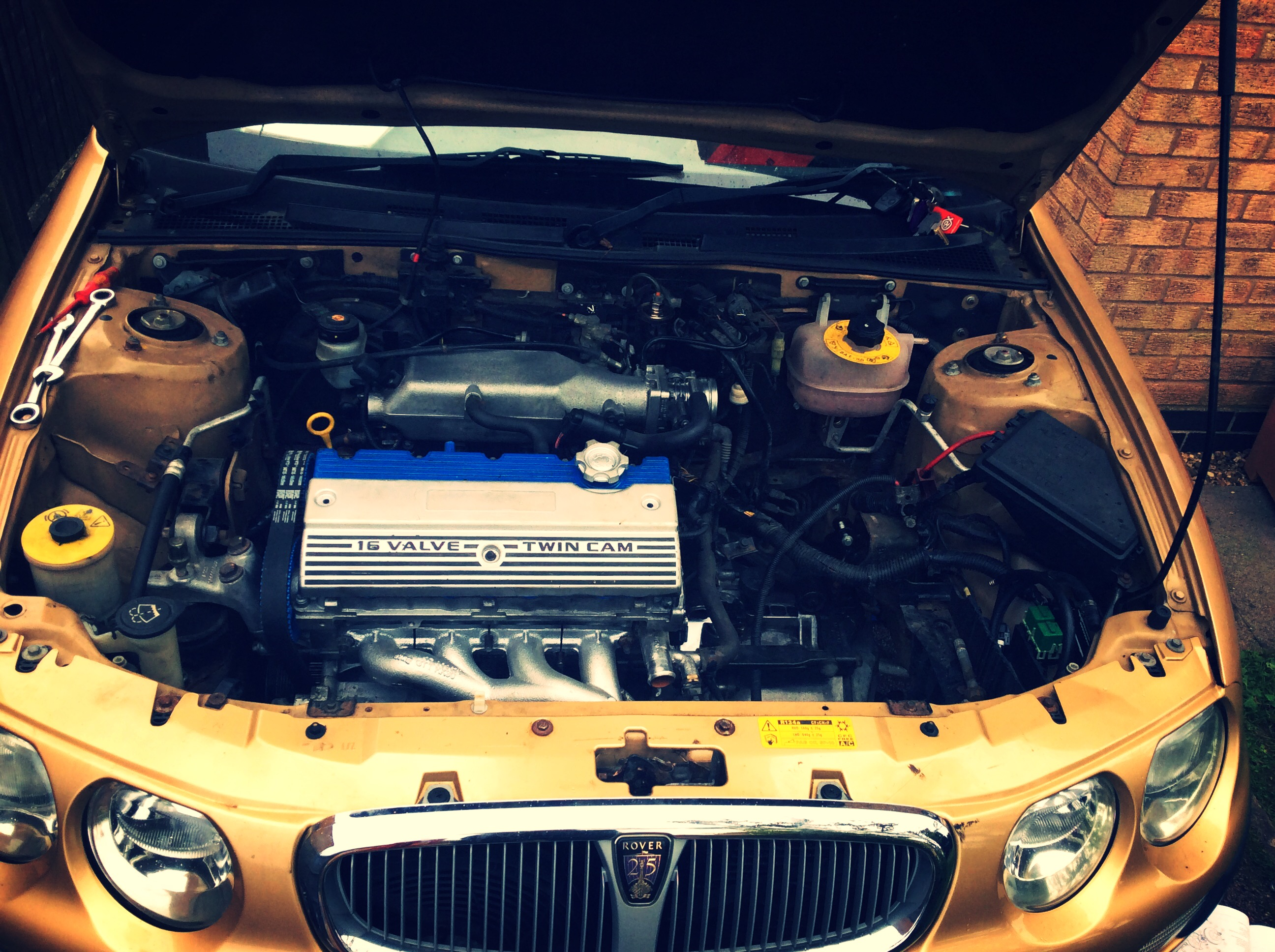 Rover 75 Turbo engine fitted to a Rover 25